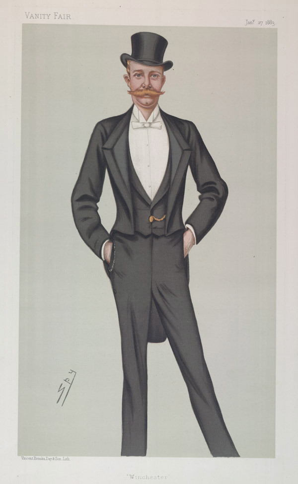 Statesmen No.418: Caricature of Viscount Baring. Caption reads: "Winchester"